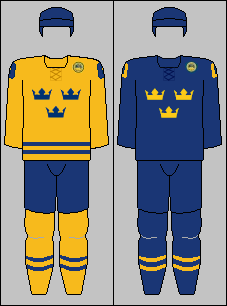 The home and away jerseys of the Swedish national ice hockey team used from the 2014 IIHF World Championship.